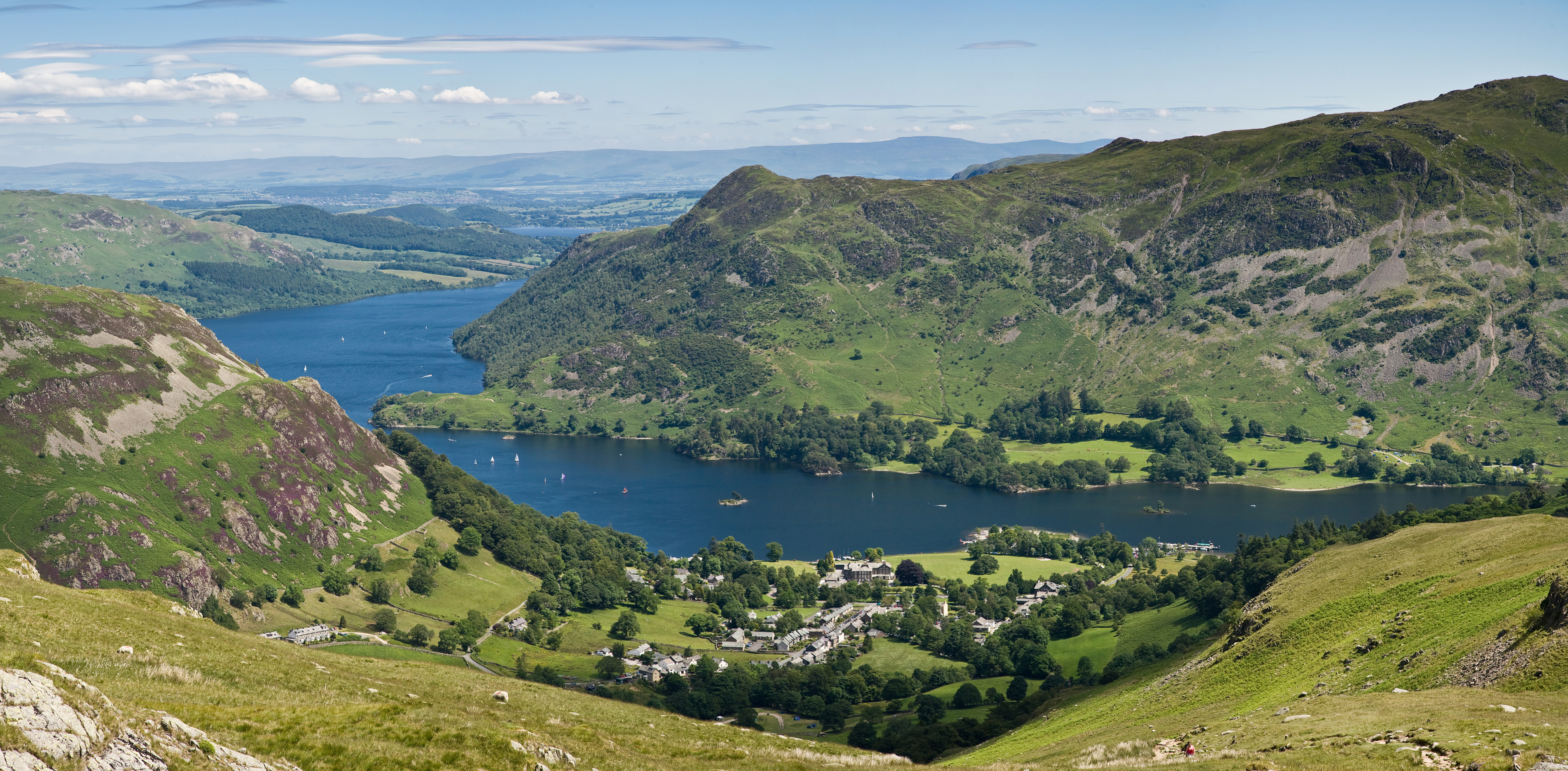 The village of Glenridding and Ullswater in the Lake District, Cumbria, England. This view is looking east from the hills at the start of the ascent to Helvellyn.